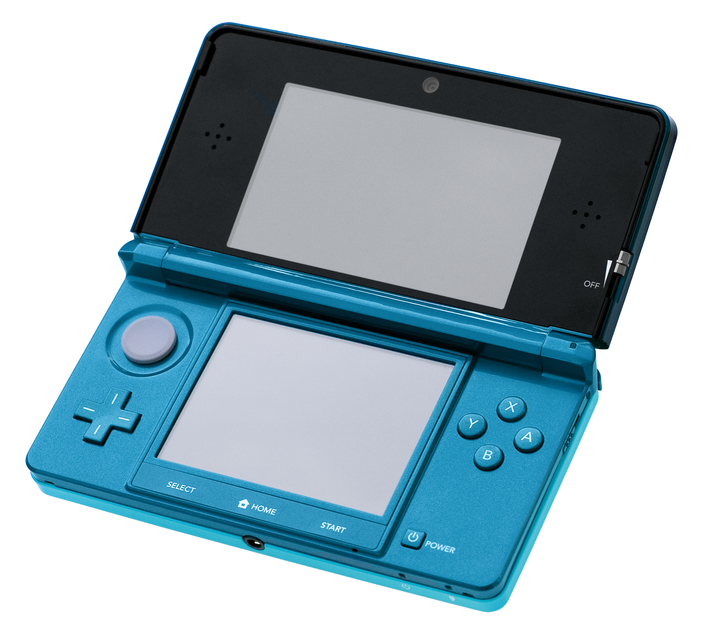 A Nintendo 3DS in Aqua Blue, photo taken during the 3DS launch event in NYC.